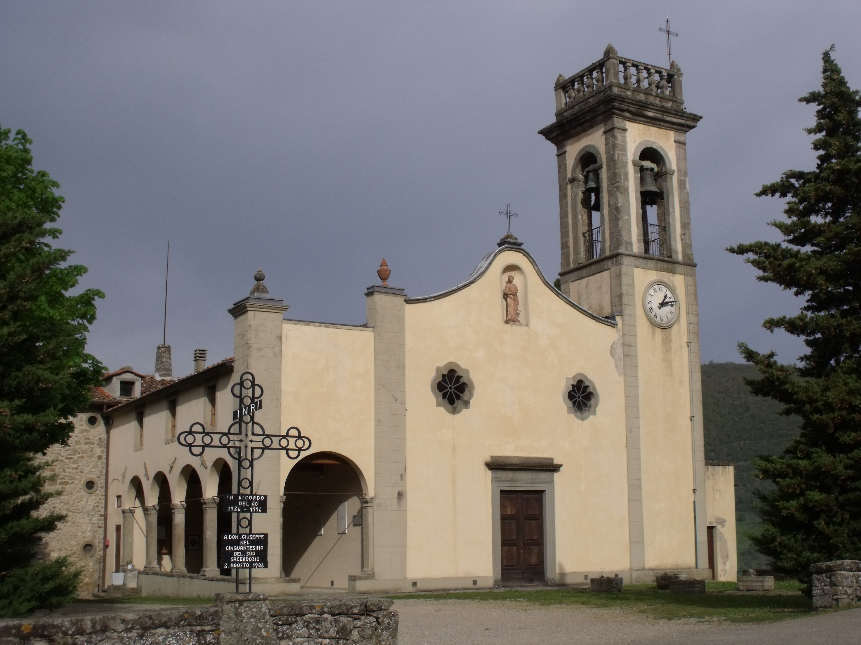 Church Pieve dei Santi Vincenzo e Pietro in Chitignano, Casentino, Province of Arezzo, Tuscany, Italy